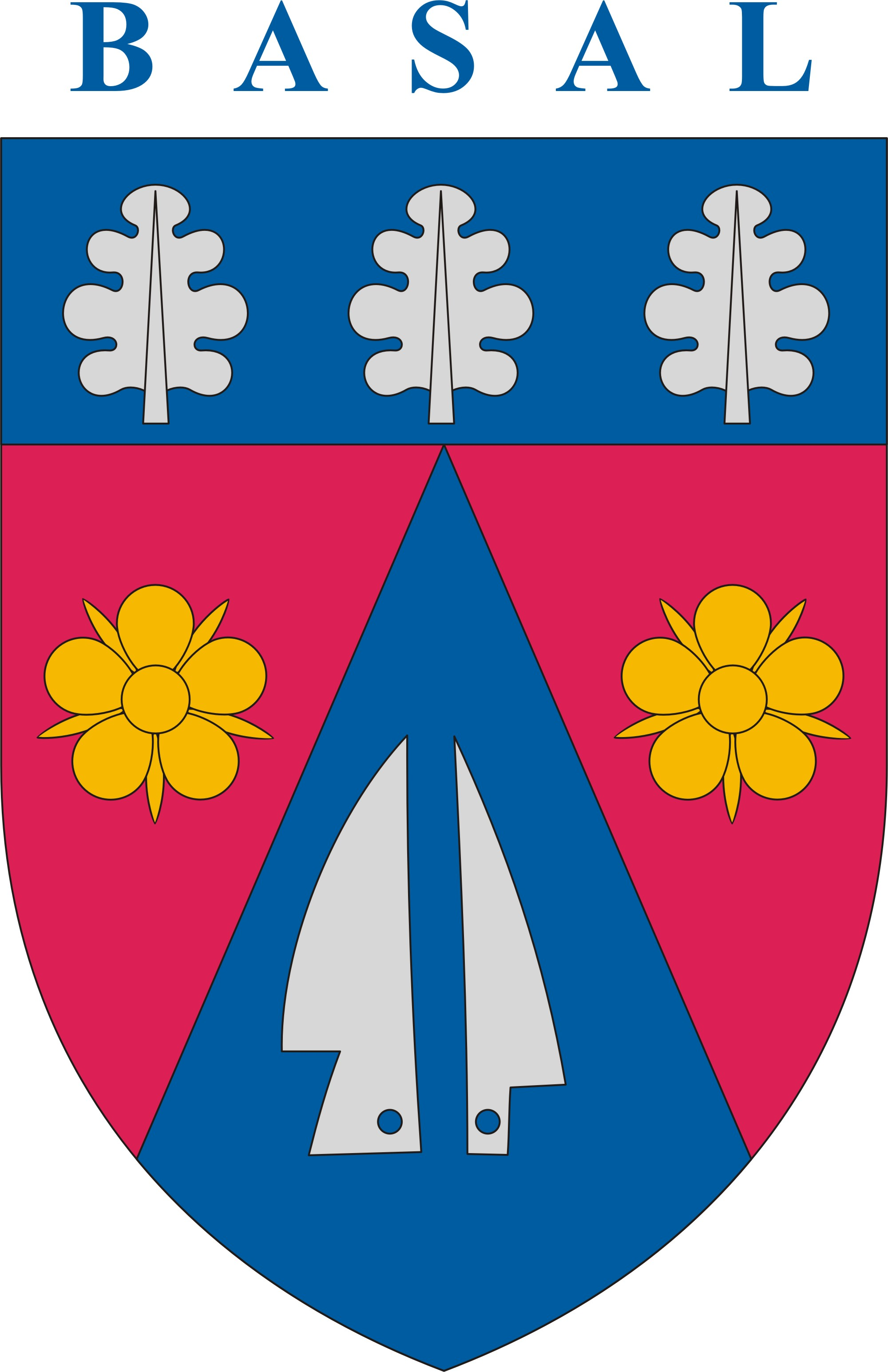 Basal, Coat of Arms